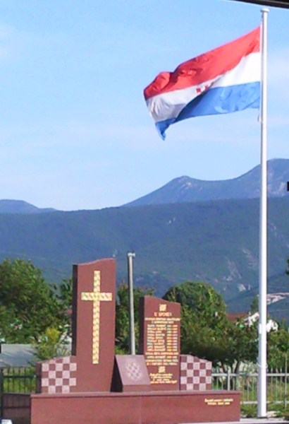 Spomenik poginulim hrvatskim braniteljima i civilnim žrtvama iz Domovinskoga rata